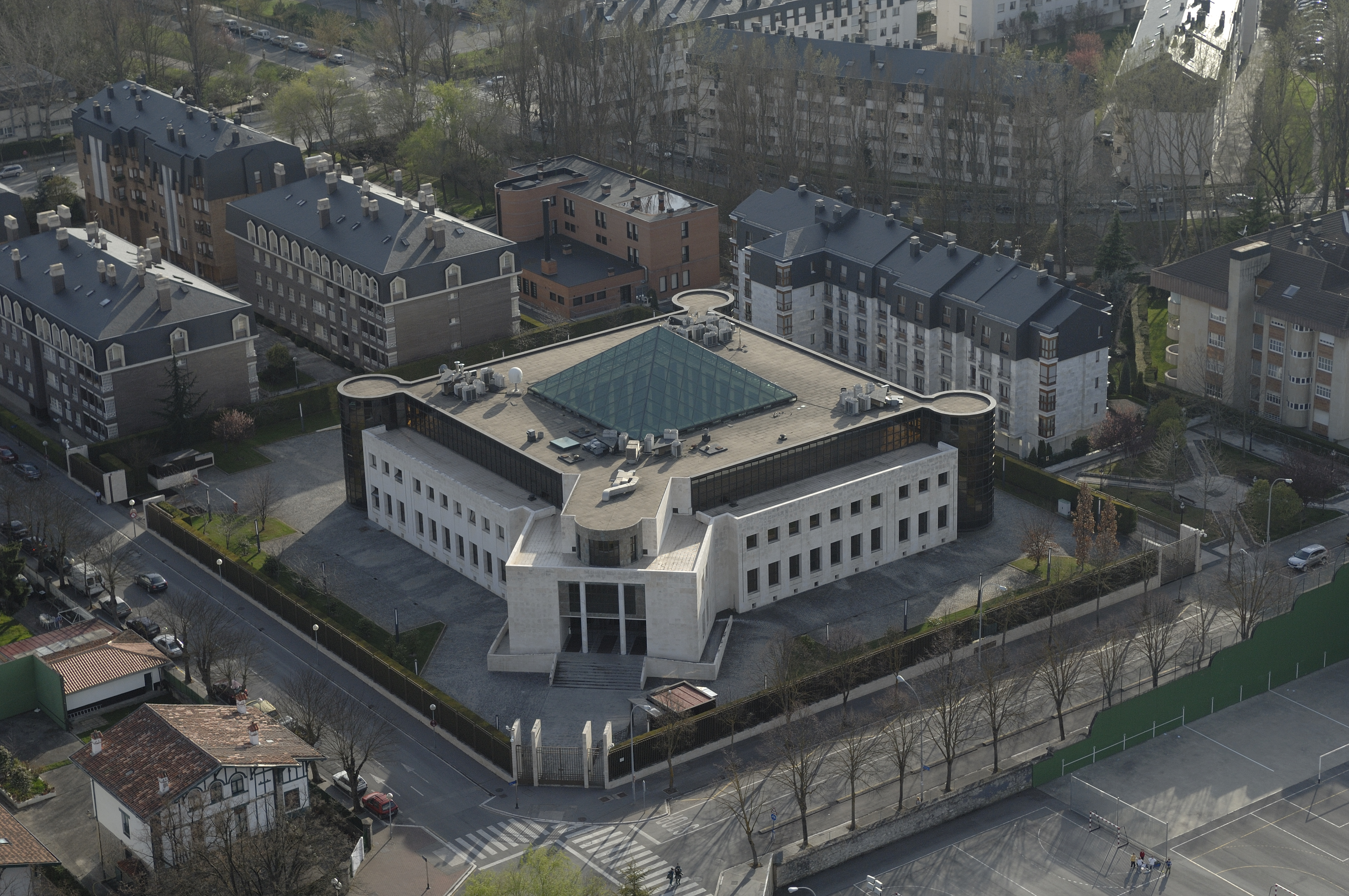 Lehendakaritza. Vitoria-Gasteiz, Basque Country.